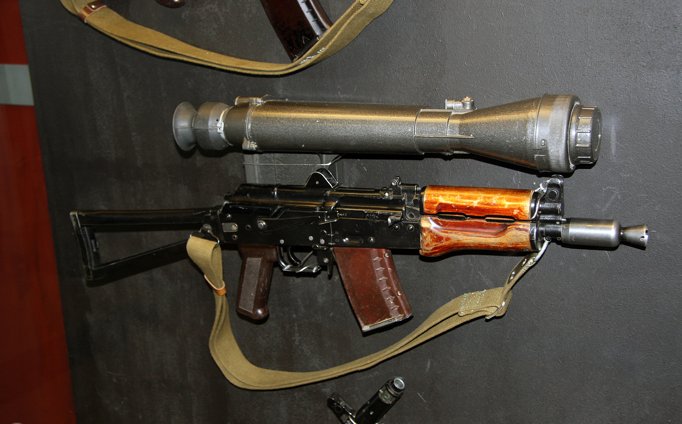 AKS74U